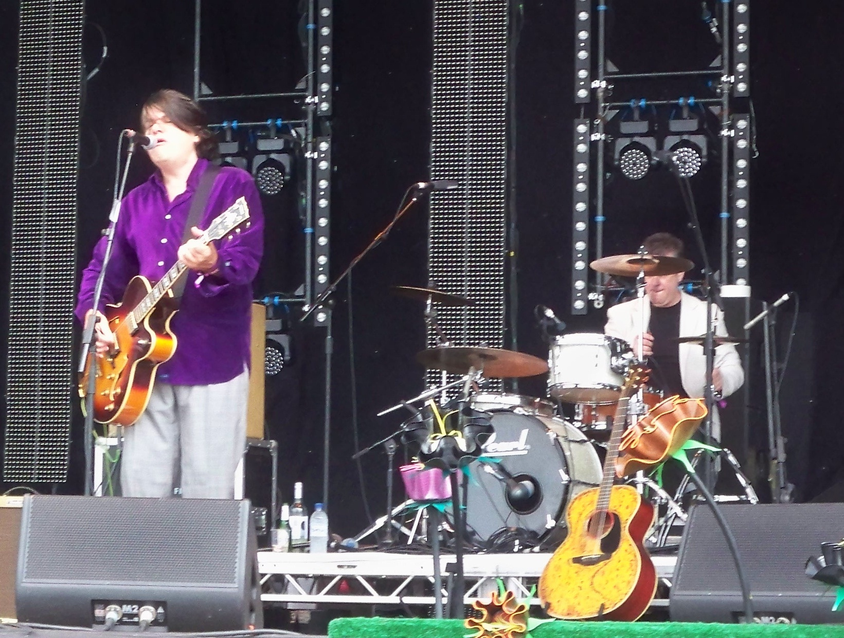 The Blow Monkeys onstage at Guilfest 2011.